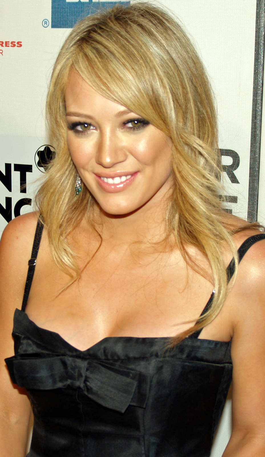 Hilary Duff at the premiere of War, Inc. at the 2008 Tribeca Film Festival.